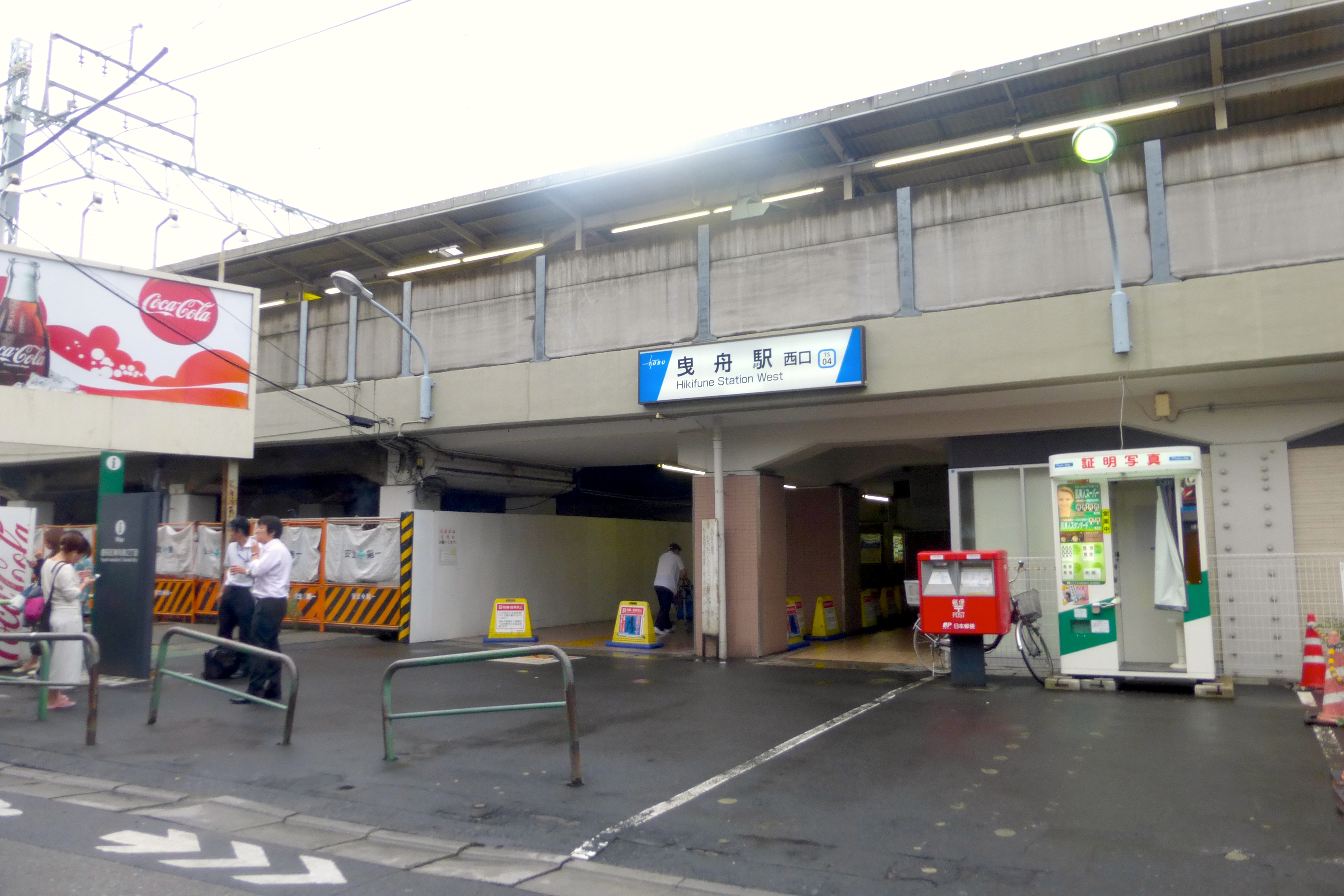 曳舟駅の西口 (West exit of Hikifune Station)